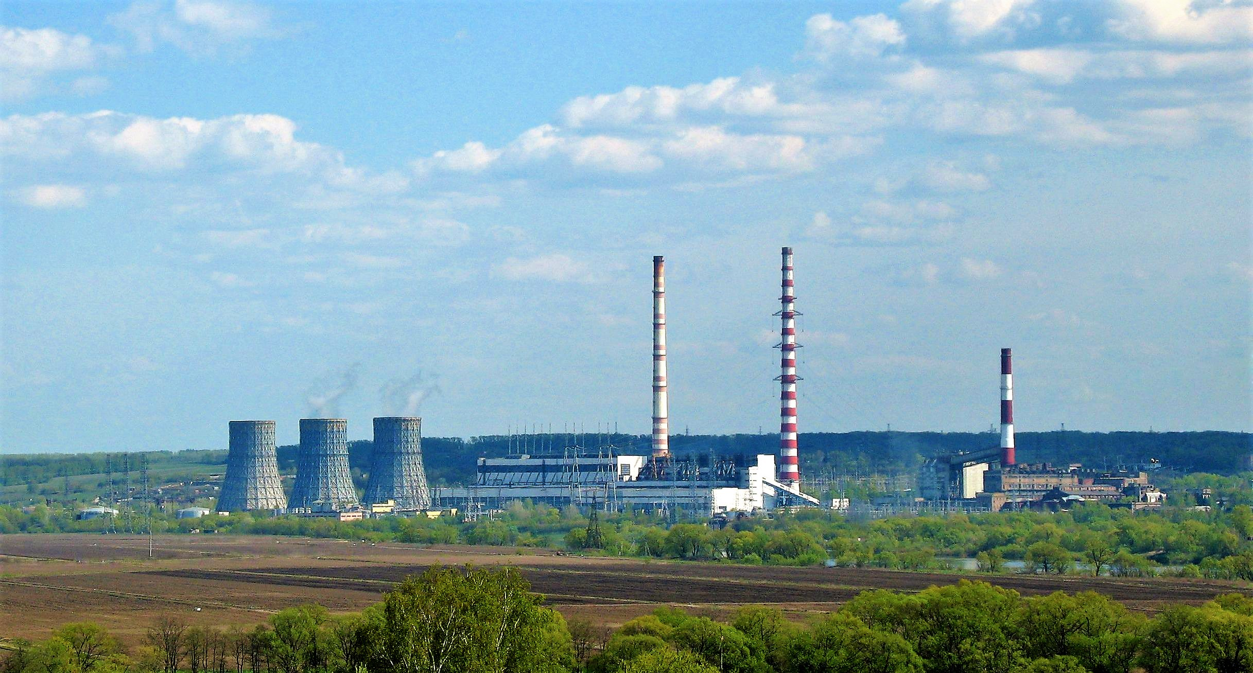 Kashira Power Plant of a name of G.M. Krzhizhanovsky in the city of Kashira of Moscow Region